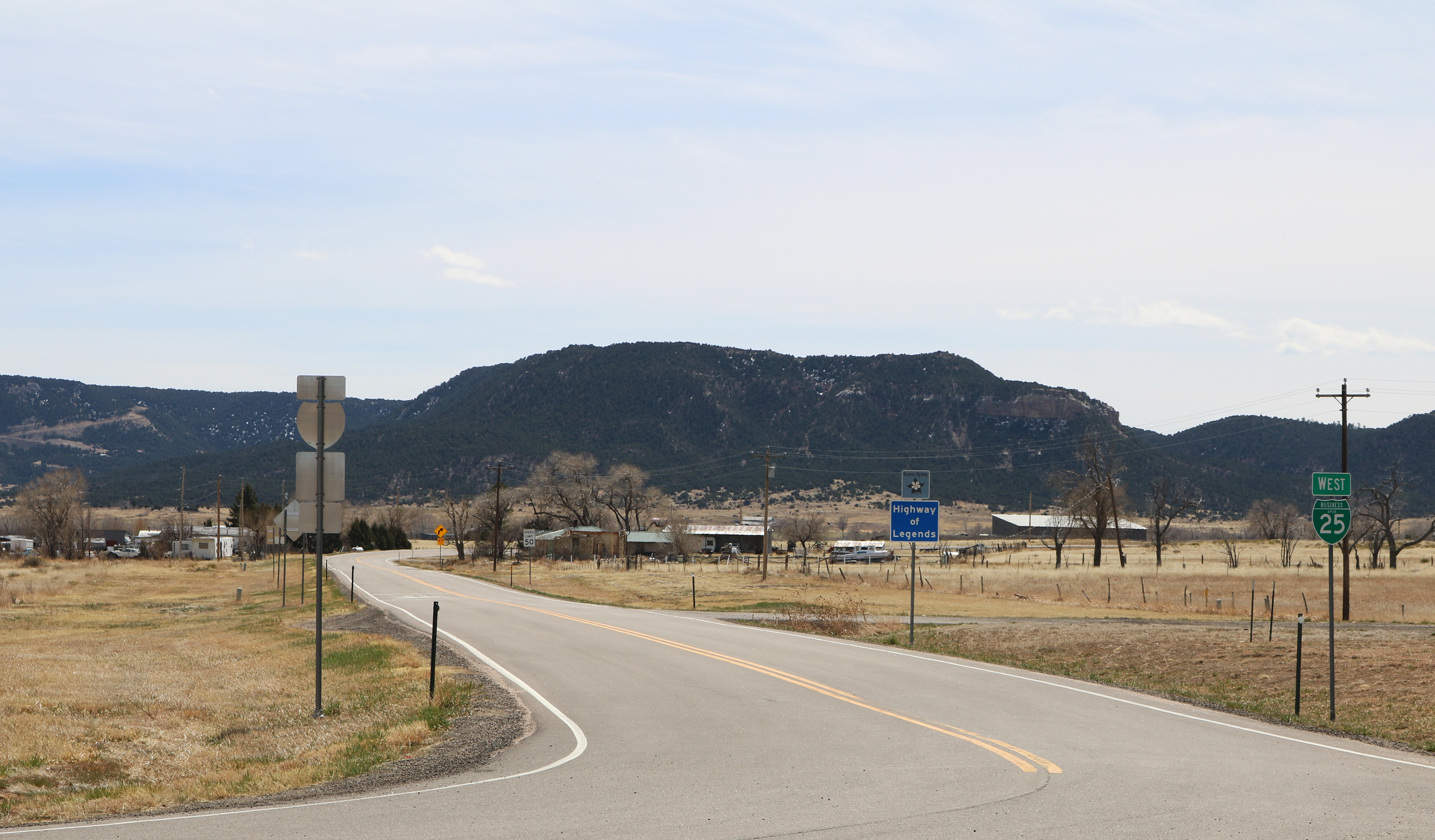 Lynn, Colorado, a census-designated place in Las Animas County. The view shows Lynn Road near its intersection with Interstate 25. The view is to the south, and Aguilar, Colorado is a couple miles away off the right side of the picture. The mountain in the center of the picture is called TV Hill.